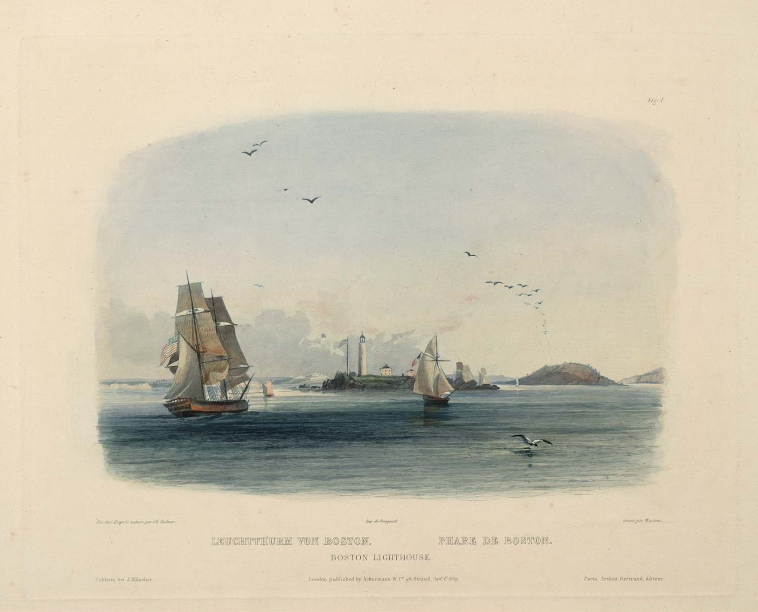 Author: aquatint by Karl Bodmer from the book "Maximilian, Prince of Wied’s Travels in the Interior of North America, during the years 1832–1834" by Prince Maximilian of Wied (Publisher: Ackermann & Co., 1839)